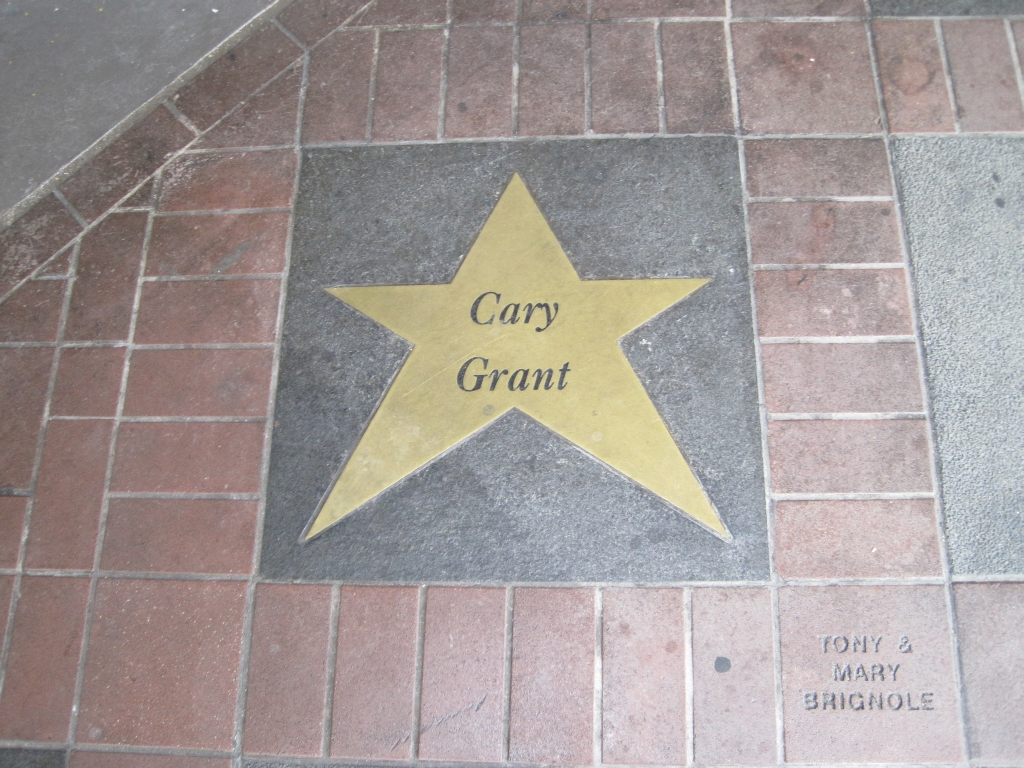 Walk of fame at the Orpheum Theater in Memphis, Tennessee. Cary Grant